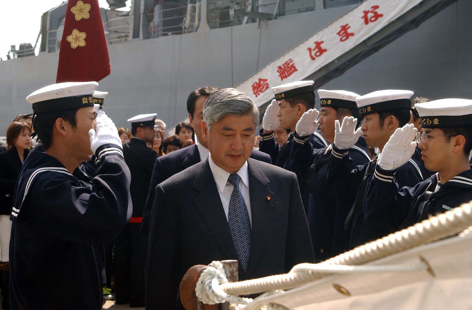 SASEBO (March 16, 2002) - Mr. Nakatani, Director General of the Defense Agency, embarks on the Japan Maritime Self-Defense Force destroyer Kurama (DDH-144) during a homecoming reception of MSDF ships, Kirisame (DD-104), Kurama, and Hamana (AOE-424), March 16, 2002. Japan's MSDF have been in the Indian Ocean providing vital logistical support, including supplying fuel, to U.S. and coalition ships in the fight against terrorism. (U.S. Navy photo by Photographer's Mate 2nd Class (AW) Jonathan R. Kulp, Released)